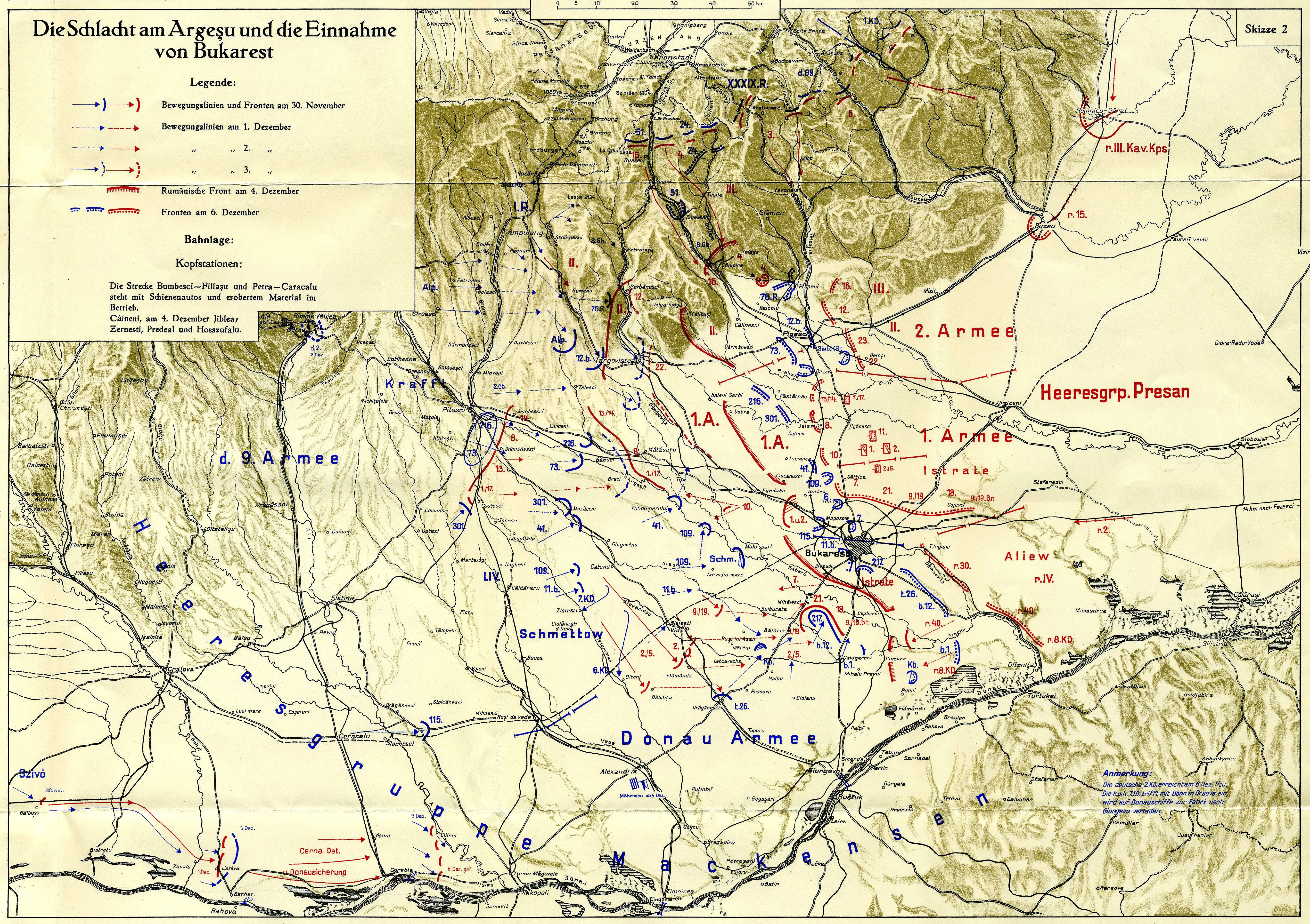 Romanian Front in WWI - The battle for the Bucharest, 1916